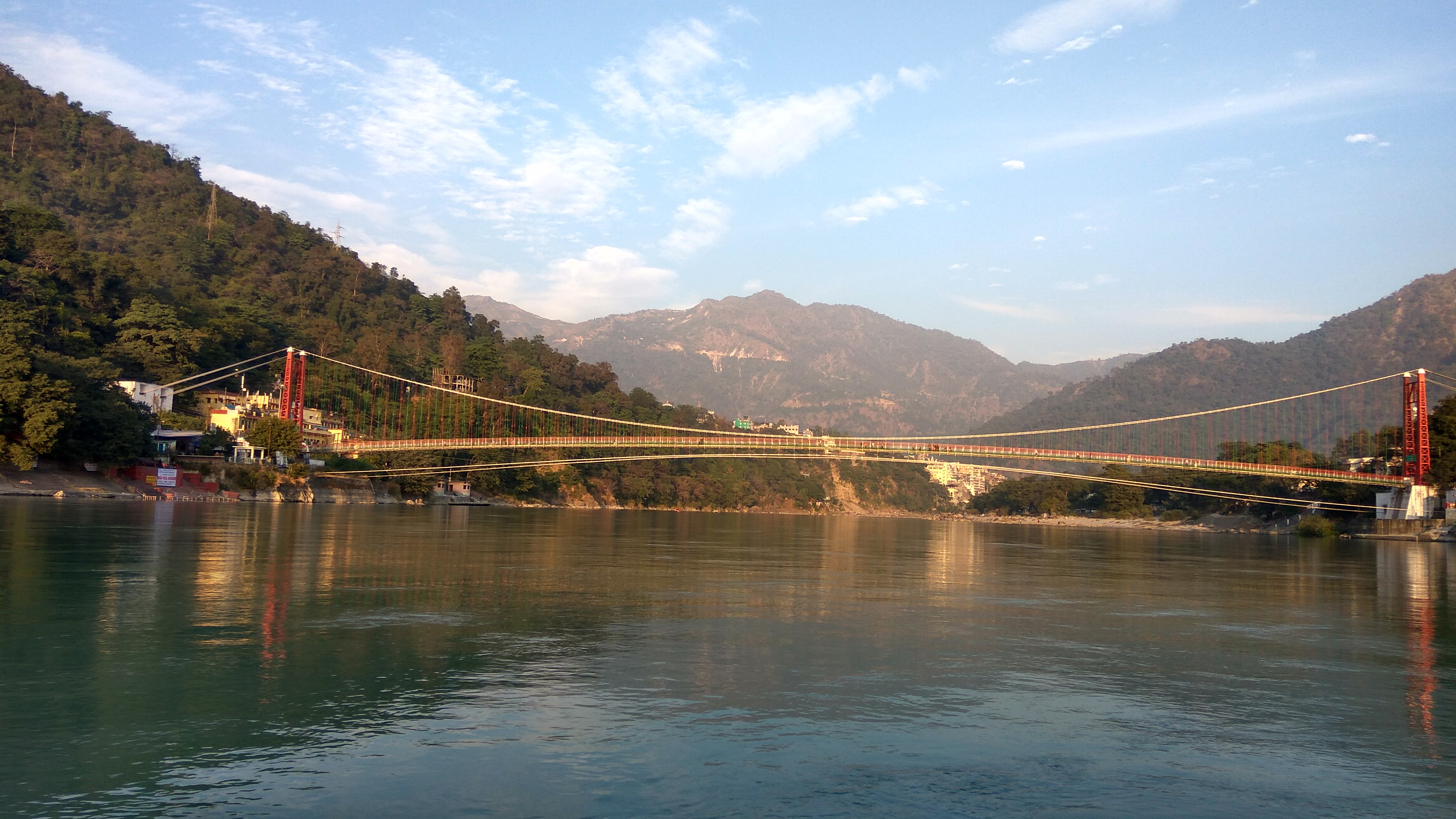 Lakshman Jhula as viewed from a boat in the Holy Ganga. The best time to visit is definitely November/December with chilly cold days and fabulous sunsets. Don't forget to cleanse your soul in the divine holiness of the river Ganga.